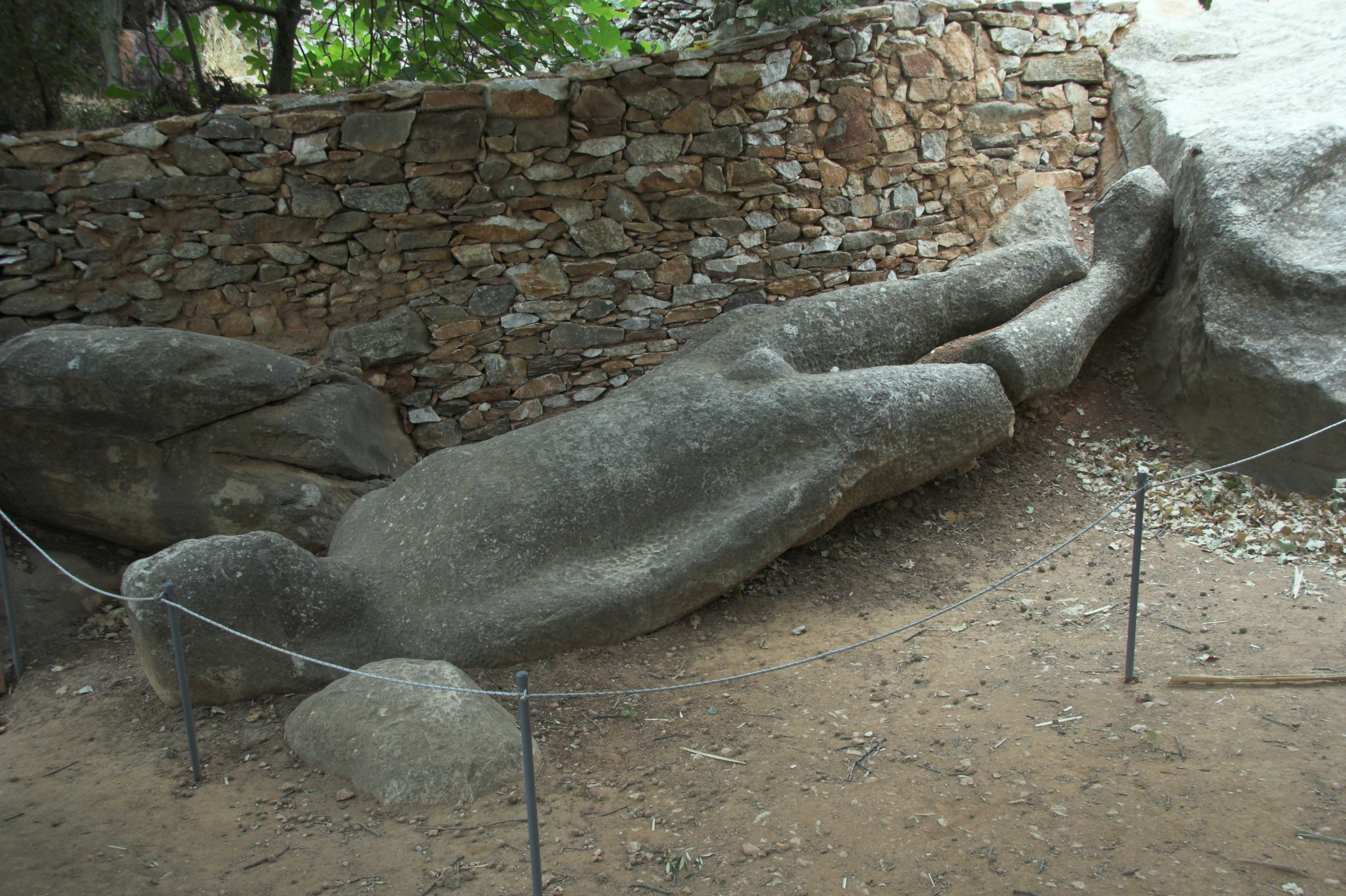 Kouros at Flerio near Mili near Melanes on Naxos. It is 6.5 meters long, dating from the 6th century BC. These semi-finished products made ​​in the quarry, the master sculptor's then finished up on the spot.